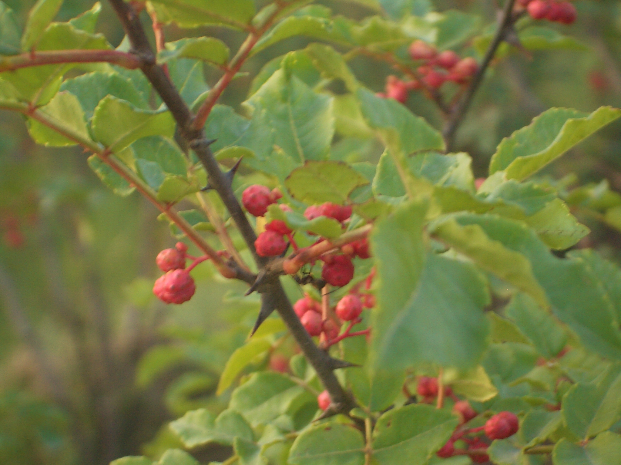 Sichuan pepper shrubs grown near eroding edges of the loess plateau north of Linxia city. It is probably planted there either in order to slow down erosion, or to make better use of the land, or both.